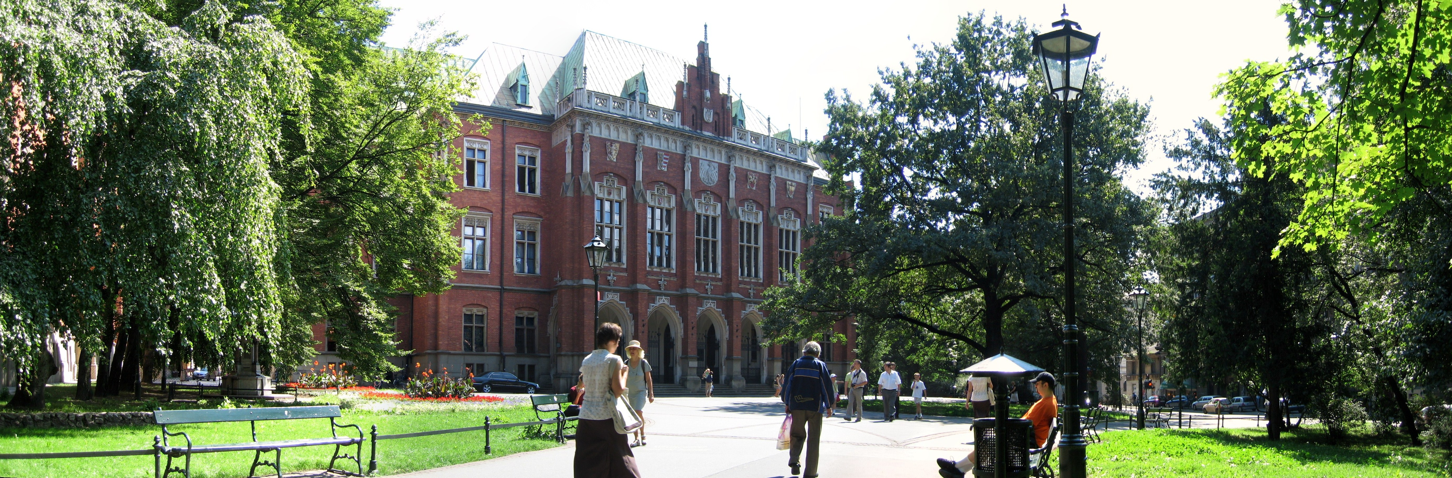 Collegium Novum in Kraków.